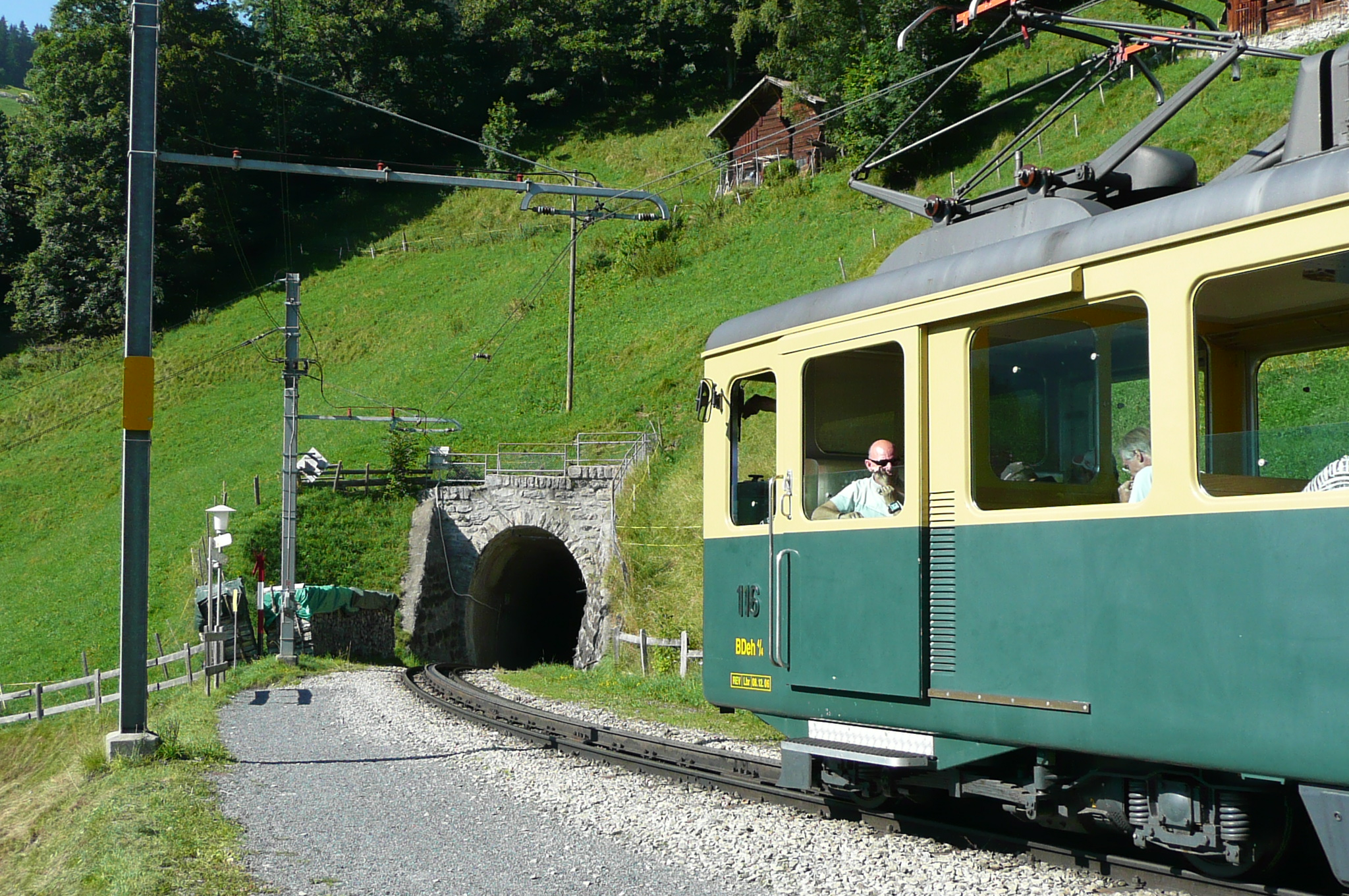 Wengernalp rack railway motor coach BDhe 4/4 116 approaching 180 degree helical tunnel downhill after Wengwald train stop on request line Lauterbrunnen-Kleine Scheidegg – 2009-08-05